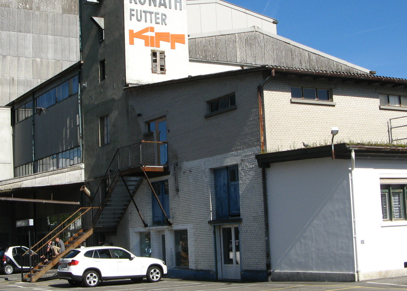 Figurentheater Fabrikpalast Aarau